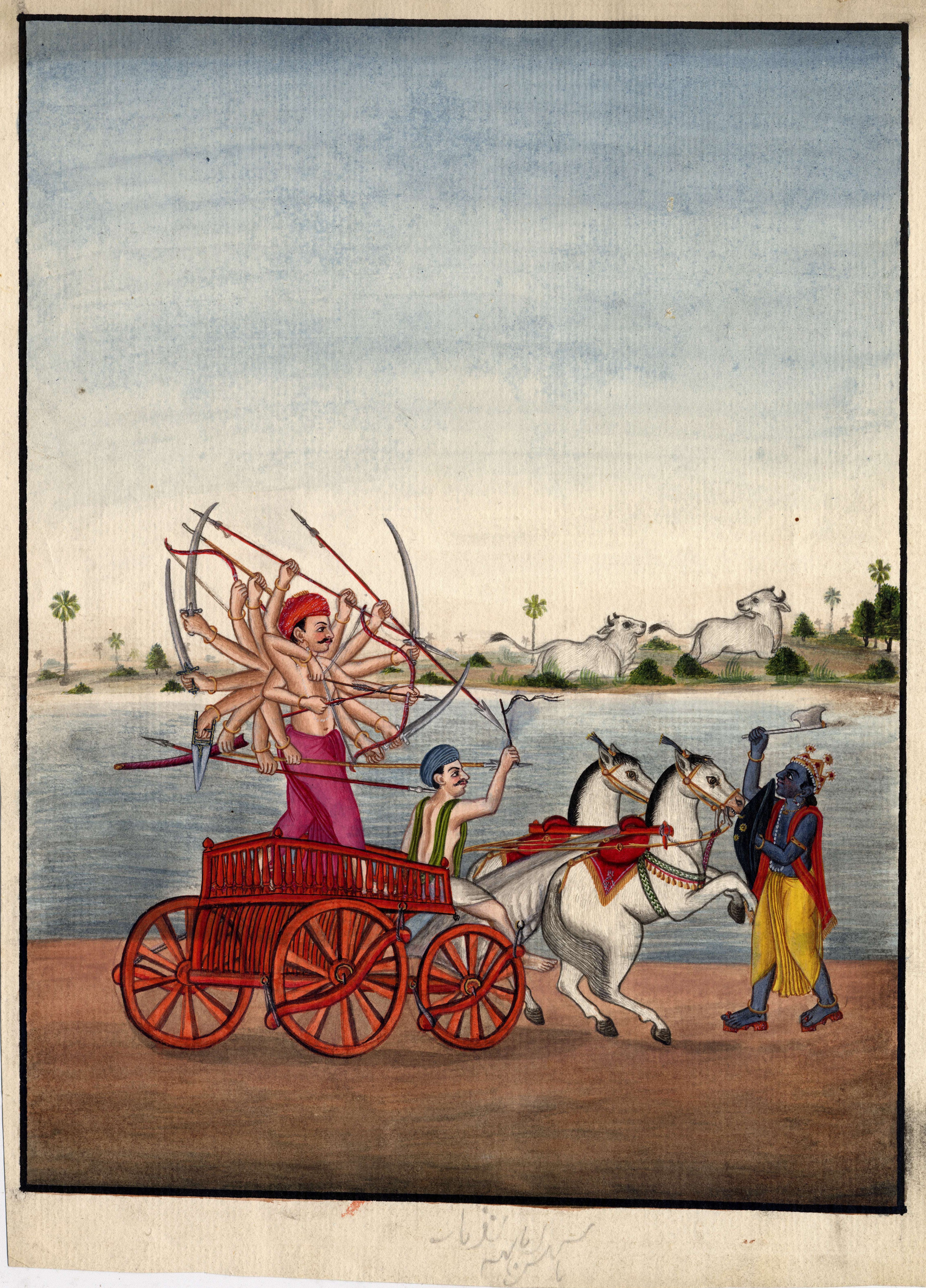 Paraśurāma, one of the incarnations of Visnu, fighting King Kartavirya Arjuna. Paraśurāma is shown standing on the ground wearing a dhoti, shawl and wooden sandal. He has a necklace and golden crown on his head. He raises his right arms and brandishes an axe. He faces a carriage pulled by two white horses, on the back of which rides Kartavirya Arjuna. Kartavirya Arjuna is shown with multiple arms, holding numerous weapons including the sword, bow, arrows, dagger and spear. The driver of the carriage raises his whip towards Paraśurāma. In the background of the painting are shown trees and foliage and two running cows. The painting is surrounded by a black border.